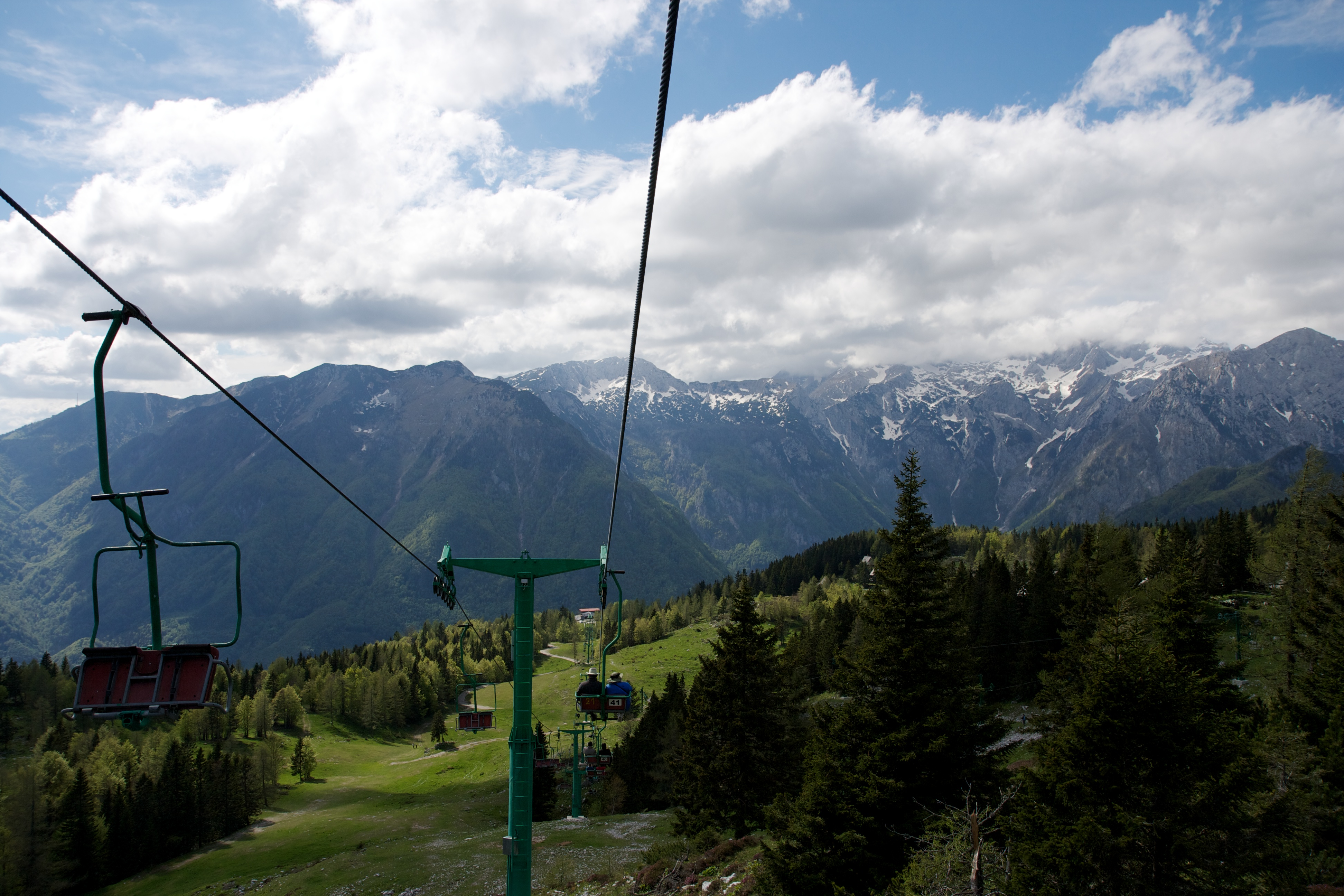 Going back down the chairlift